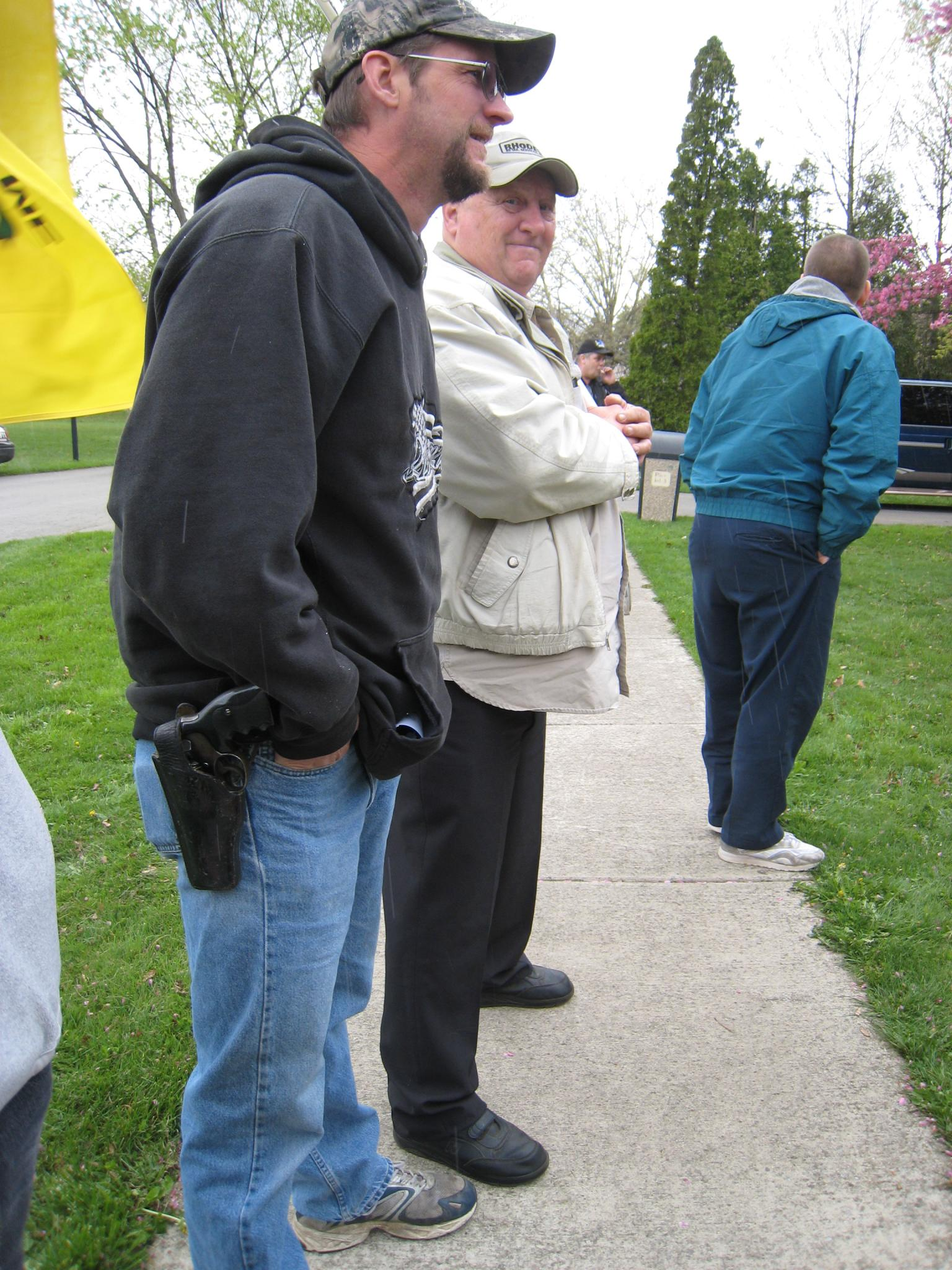 Participant attending the Campbell, Ohio Open Carry Protest of 2010